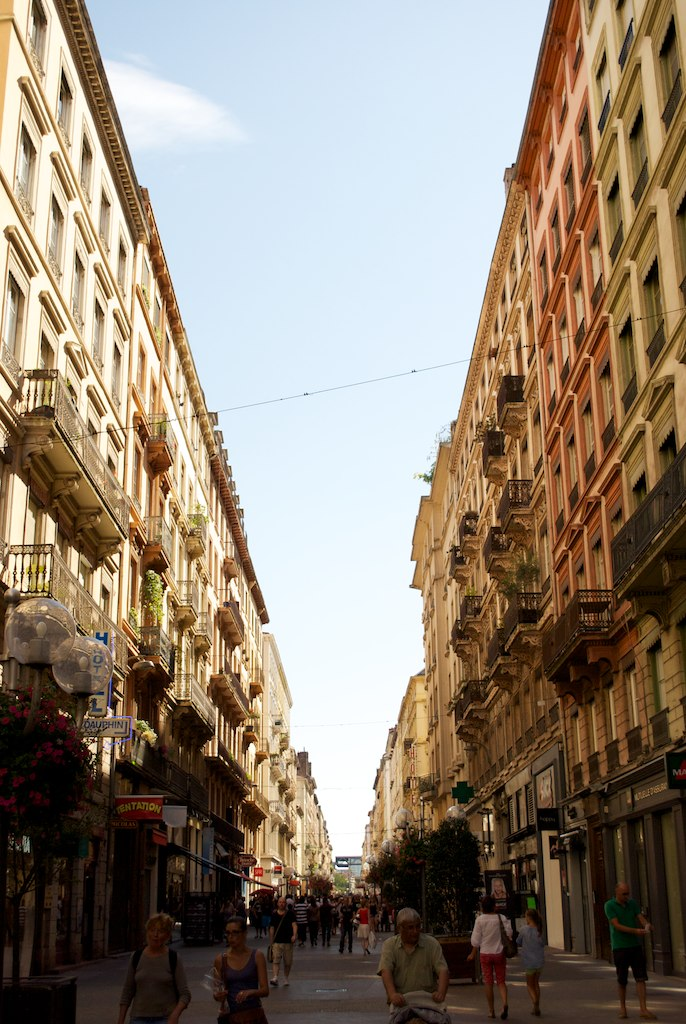 The Rue Victor Hugo in Lyon, France.